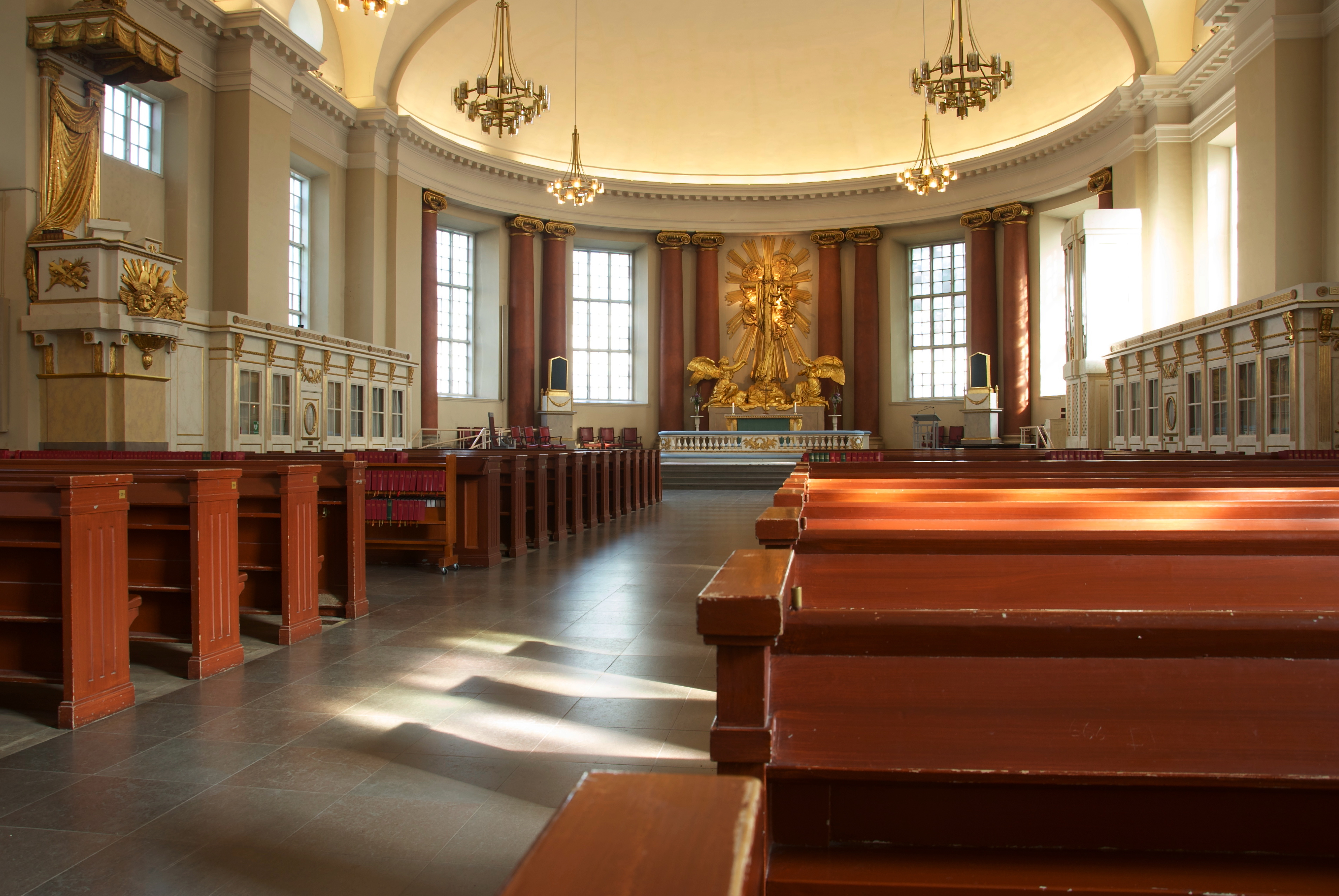 Interior of Gothenburg Cathedral.